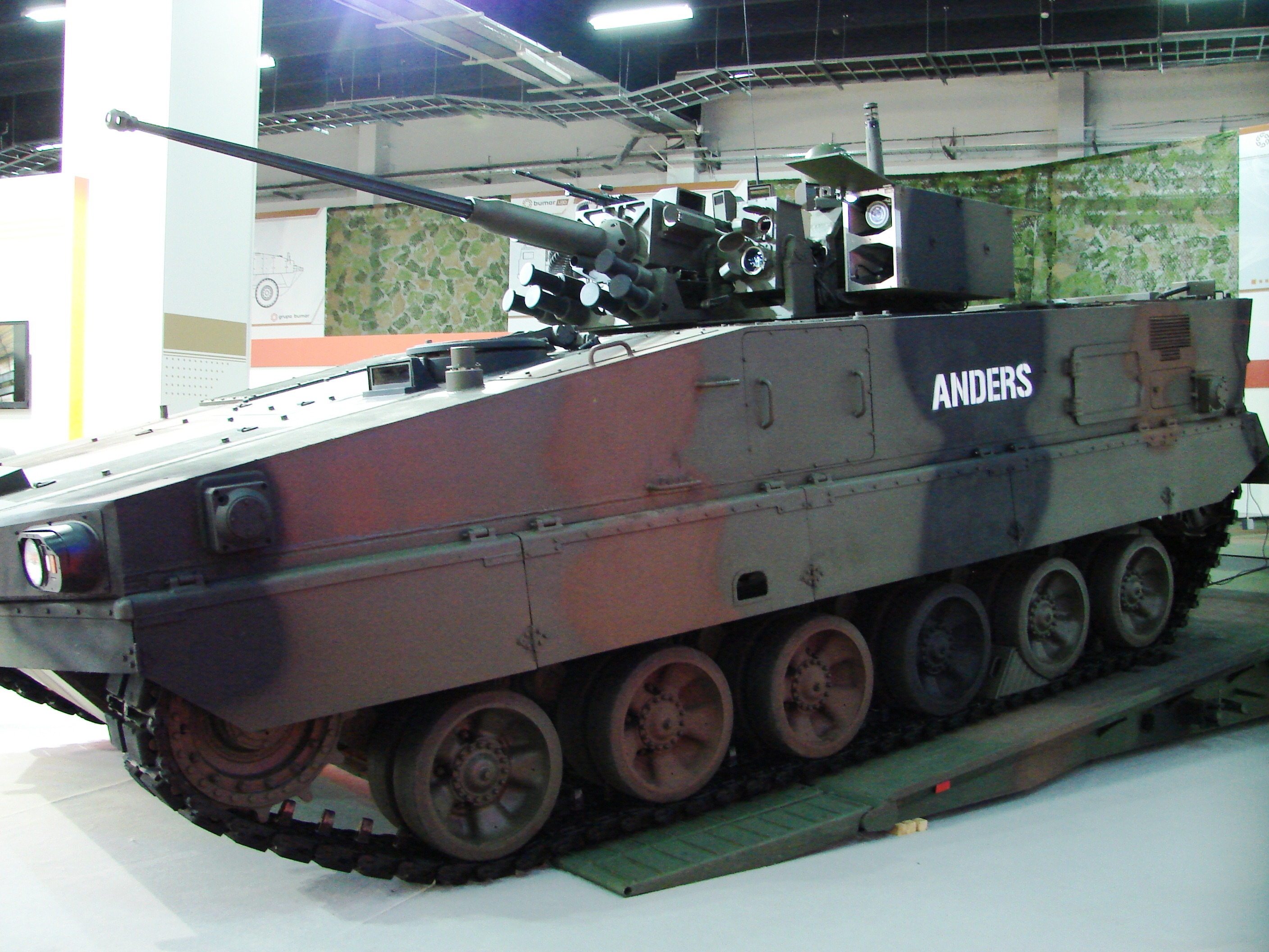 Prototyp BWP Anders z wieżą bezzałogową na targach MSPO 2011.